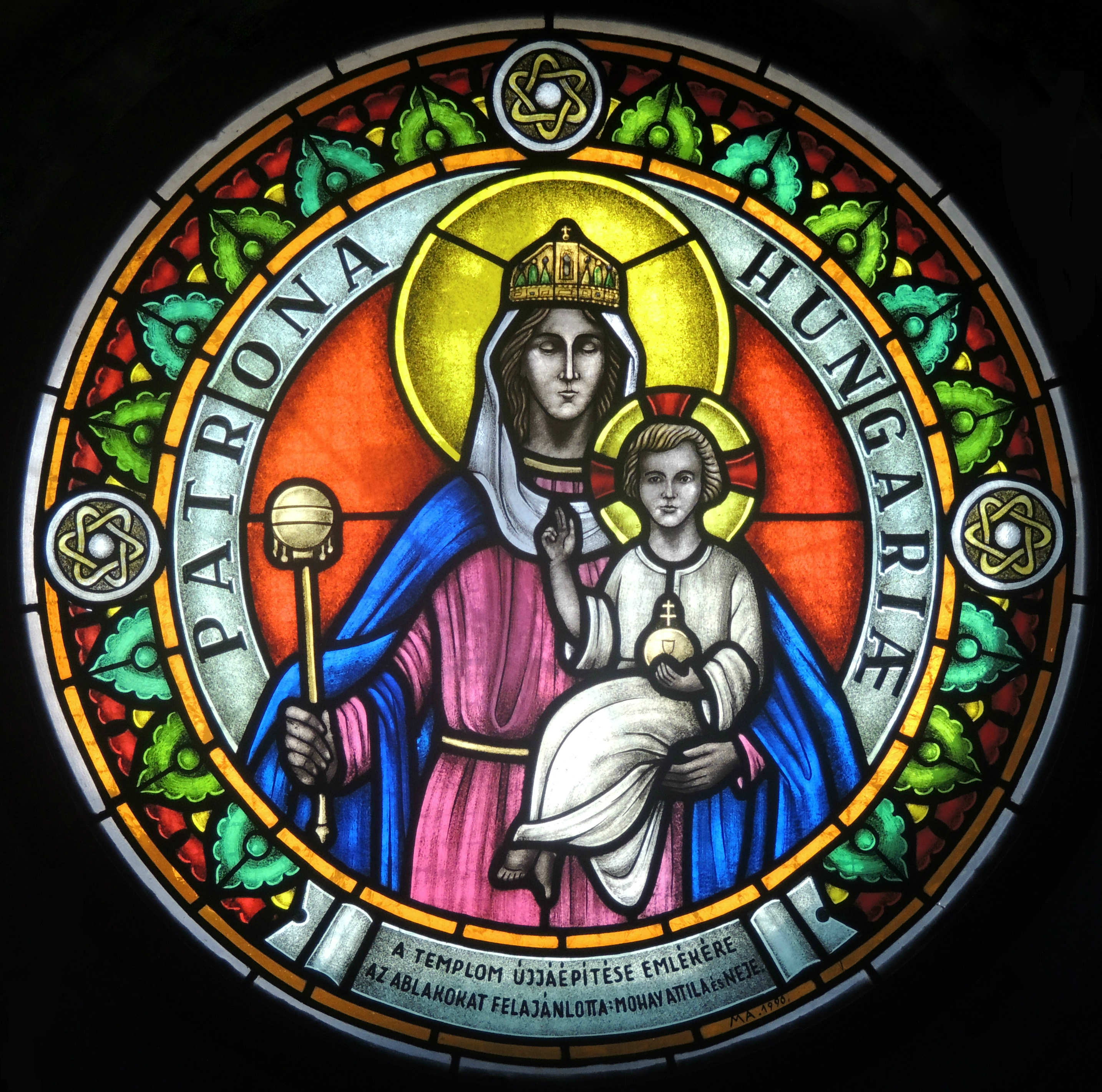 Window in the Gellért Hill Cave church in Budapest.